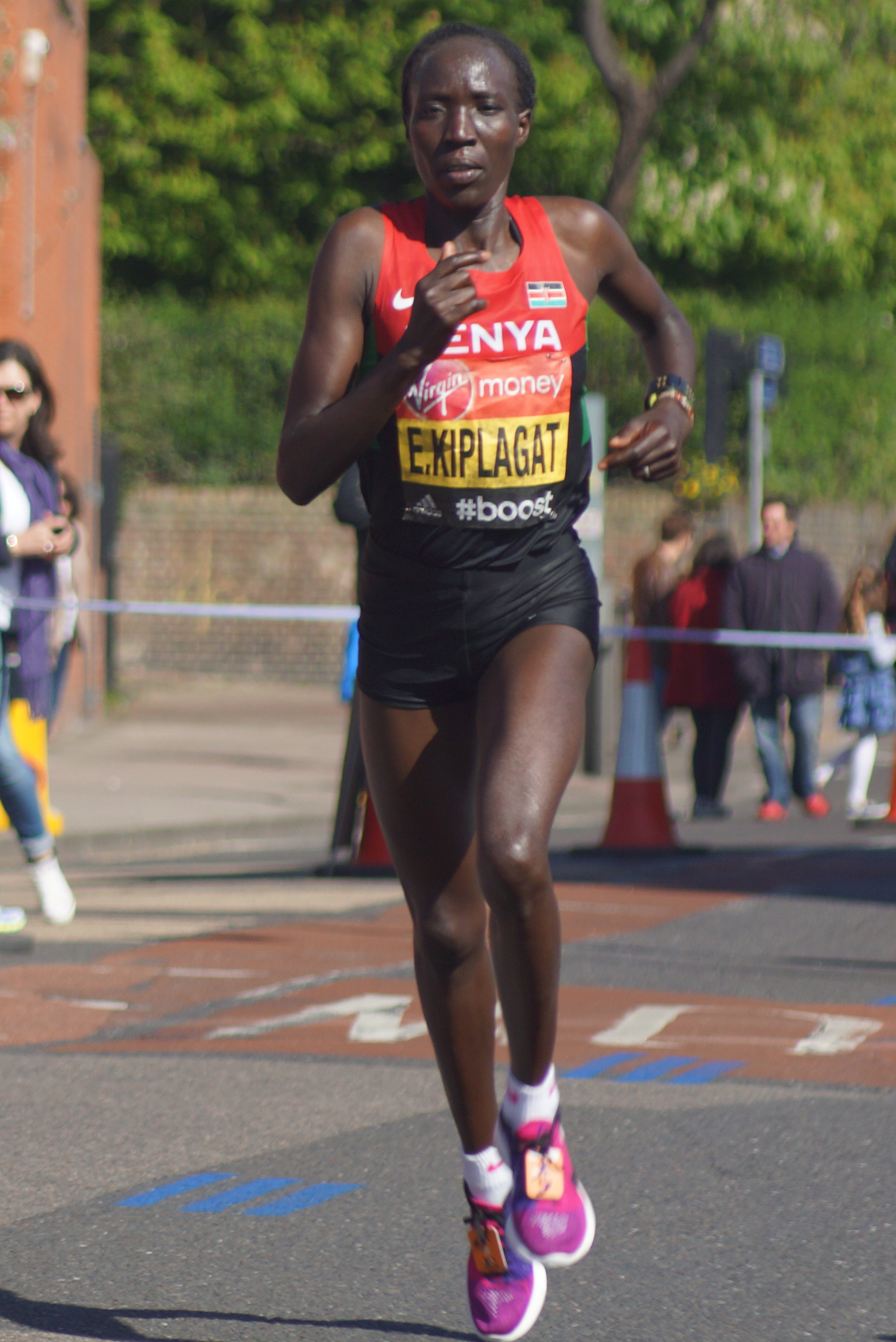 Photograph of Edna Kiplagat taken by Julian Mason on 13th April 2014 during the London Marathon. Location Westferry Road on the Isle of Dogs close to Arnhem Place and just before Millwall Outer Dock. Kiplagat went on to win the race.